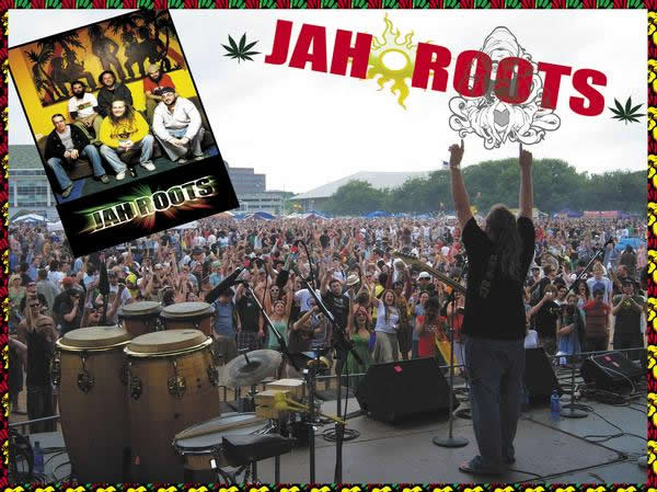 Jah Roots Reggae Fest